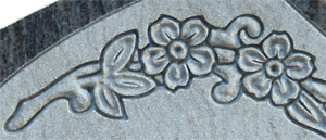 A photo from Taken by Halvard from Norway.